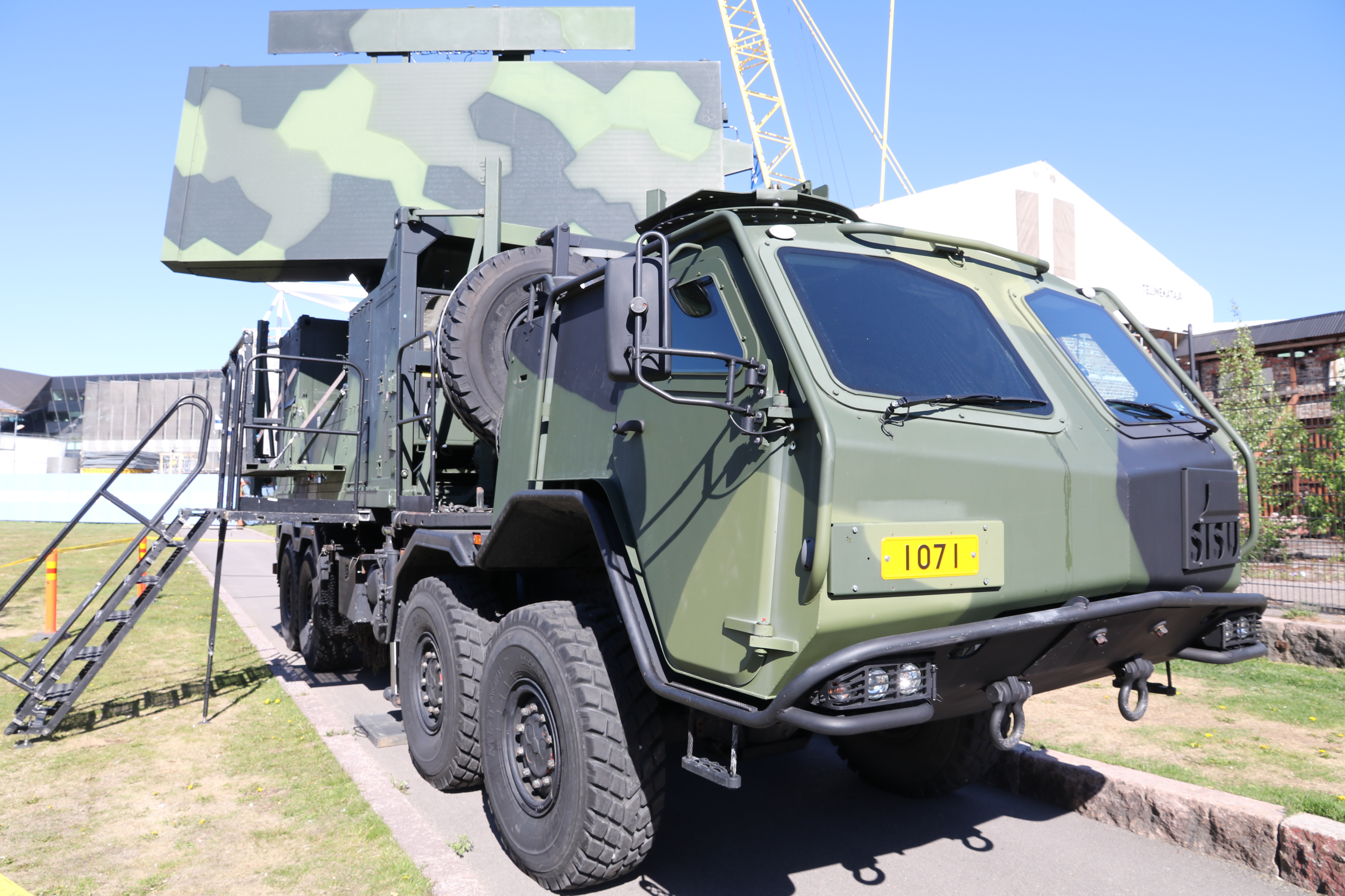 Finnish defence forces flag day 2017 equipment exhibition: Ground Master 403 (KEVA2010) radar on Sisu E13TP truck.